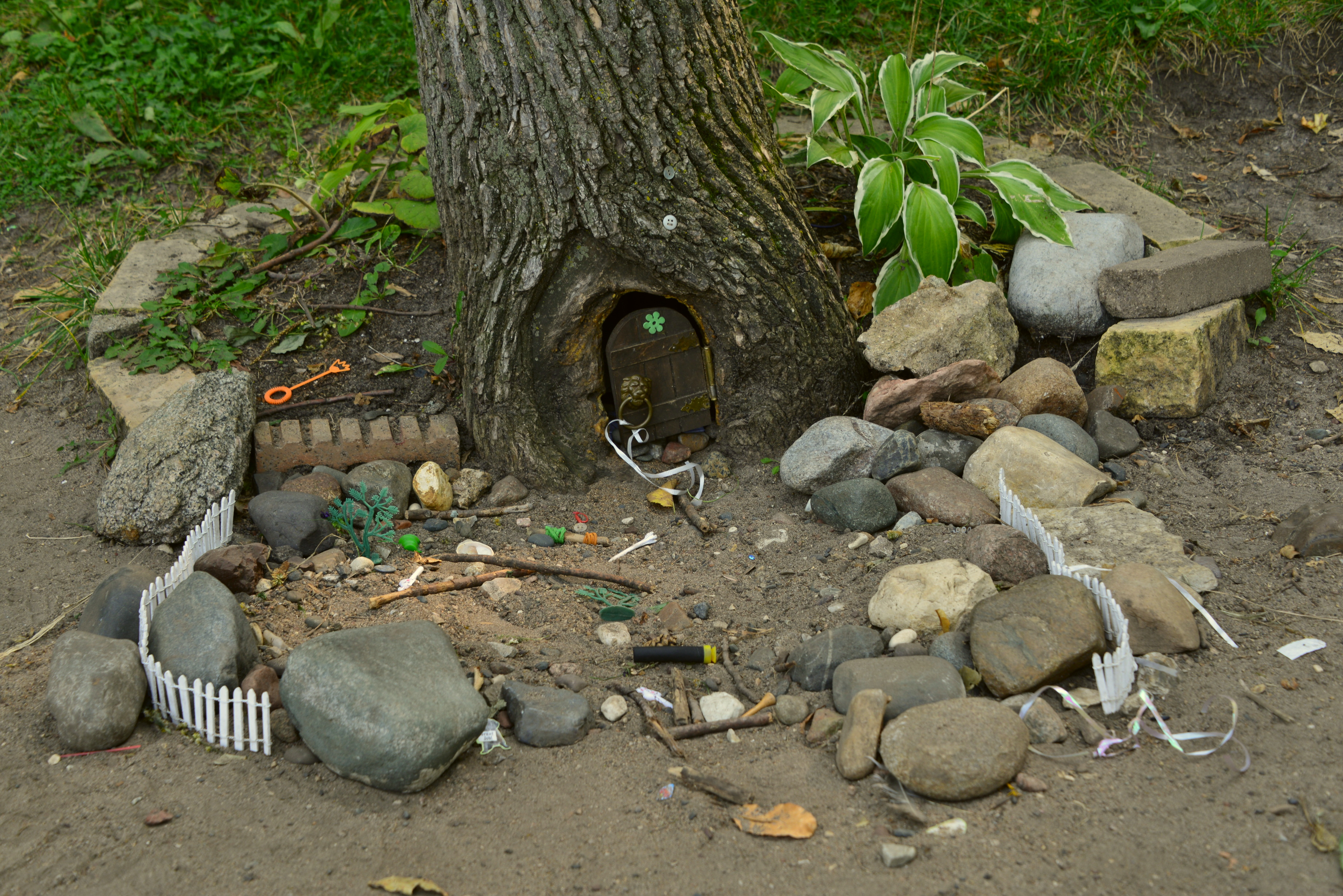 The famous Lake Harriet elf house.